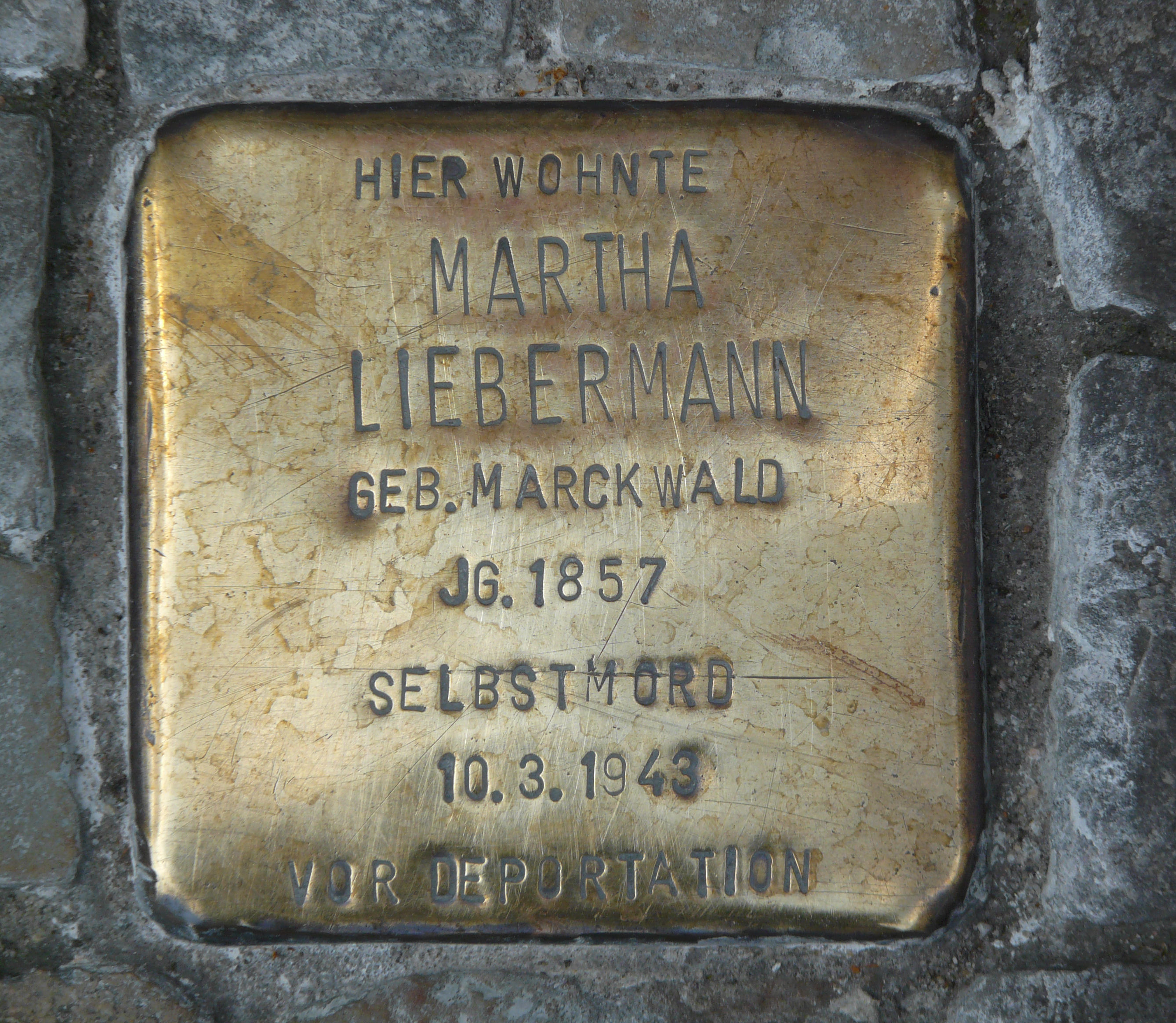 "stumbling block": Martha Liebermann, wife of German painter Max Liebermann, avoiding deportation by suicide